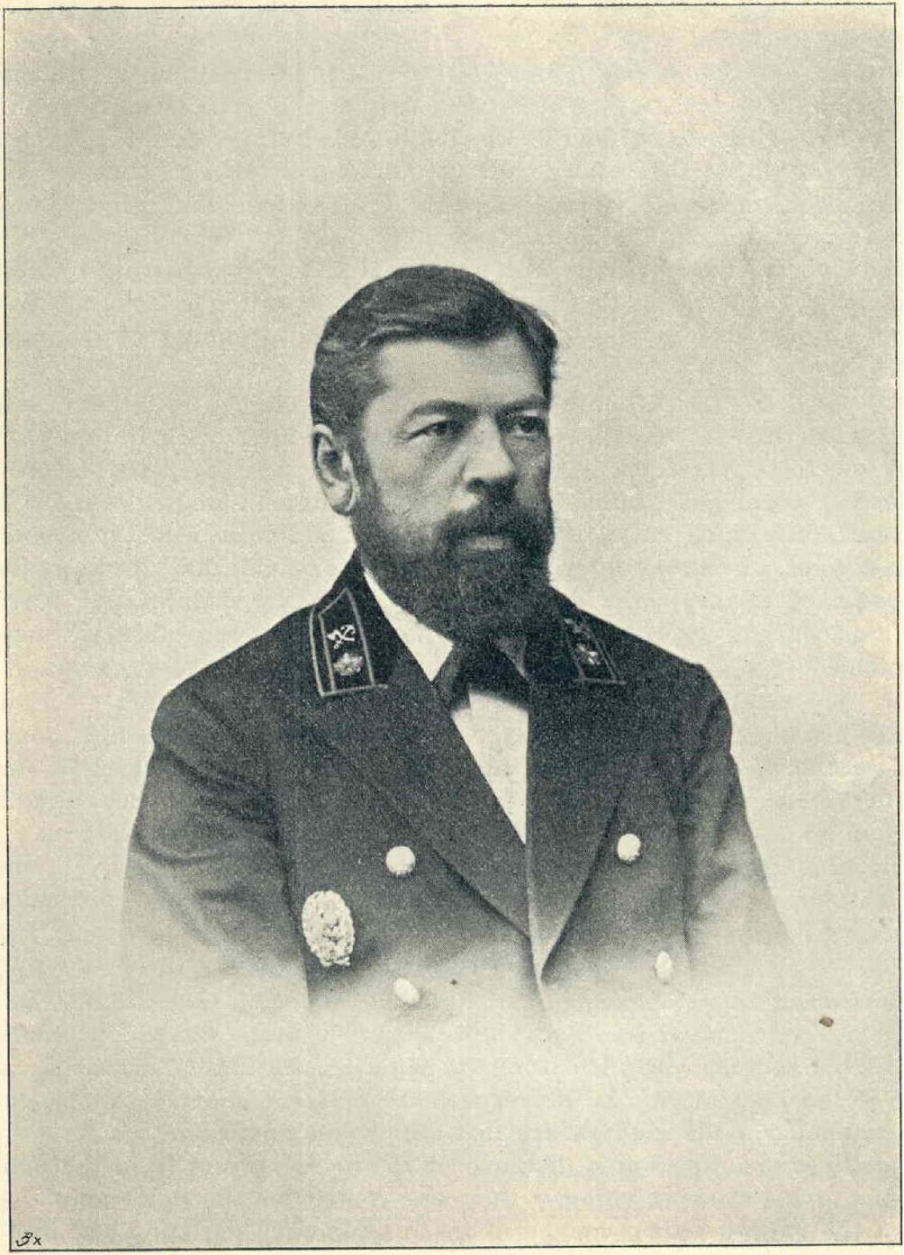 State Counselor Engineer Pushechnikov O.M., designer of the Transbaikal Railway. Illustration from the book "Guide to the Creat Siberian Railway". 1900